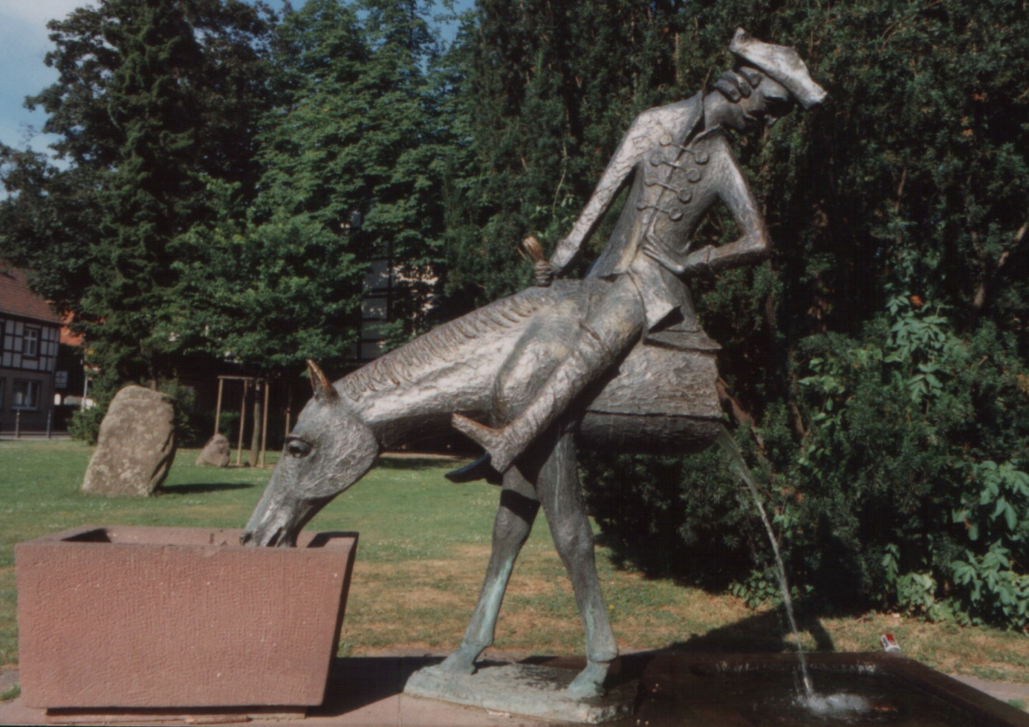 Münchhausen-statue in Bodenwerder (Karl Friedrich Hieronymus von Münchhausen), Germany, depicting a scene in one of his astounding stories